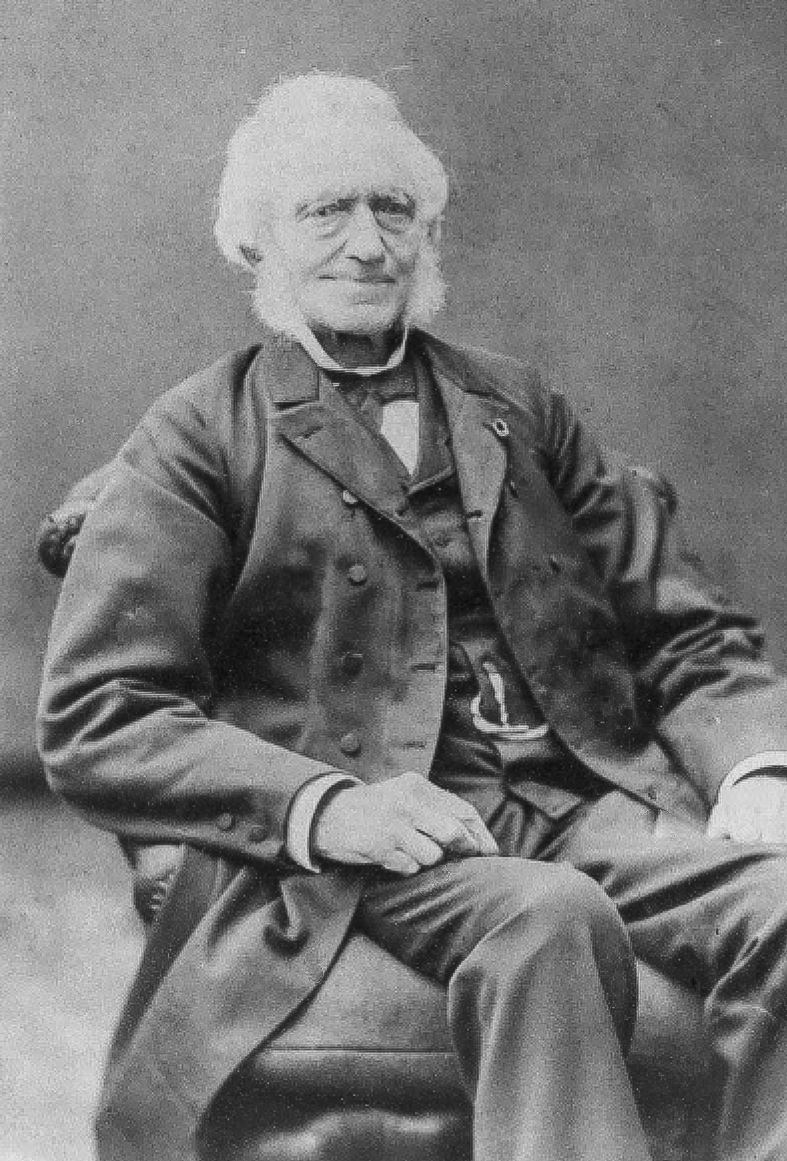 Photo portrait of Pierre Joseph Lambrechts (1795-1889), medical doctor and first burgomaster of Hoboken after Belgian independence. He was the father in law of Guillaume Delcourt (1825-1898), Belgian navigator.